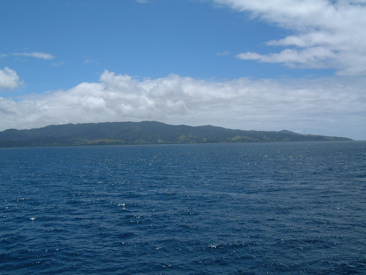 Island of Vanua Levu, Fiji, as viewed from the ferry, approaching the port of Nabouwalu